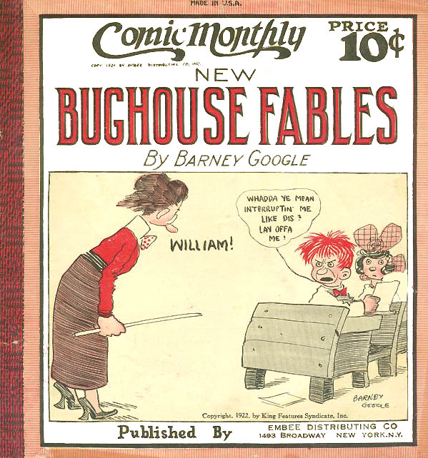 Book by Billy DeBeck